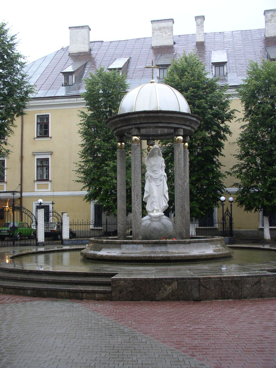 Monument of the Blessed Virgin Mary. Sheptytsky Square. Ivano-Frankivsk, Ukraine.